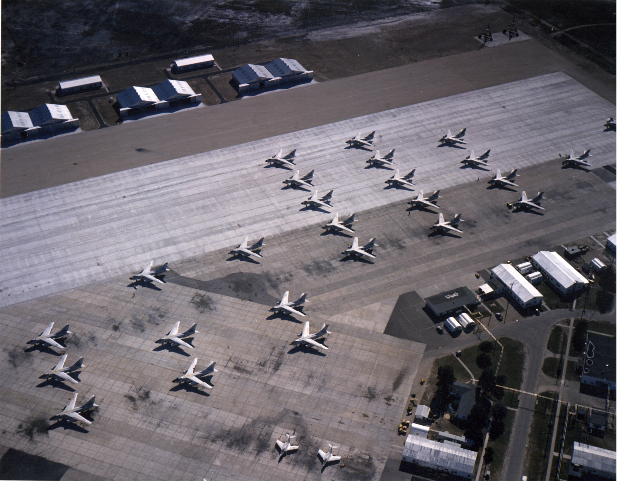 25 U.S. Navy Douglas A3D Skywarrior aircraft of Heavy Attack Wing 1 (HATWING-1) on the ground at Naval Air Station Sanford, Florida (USA), home of Heavy Attack Squadrons (VAH) 1, 3, 5, 7, 9, and 11, including 72 A3Ds. Two Grumman F9F-8T Cougars are visible in the lower center.